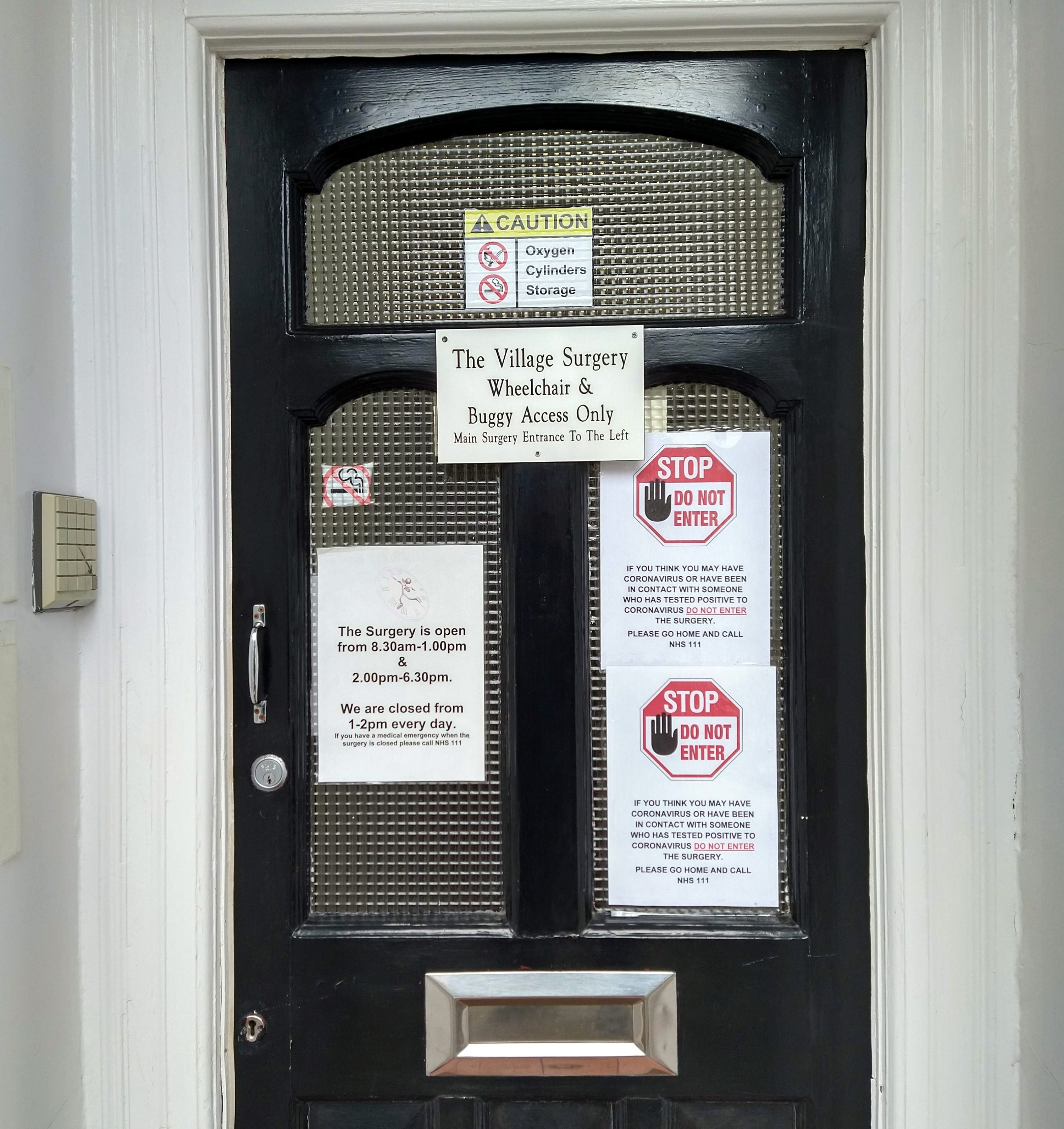 Doctor's surgery entrance north London